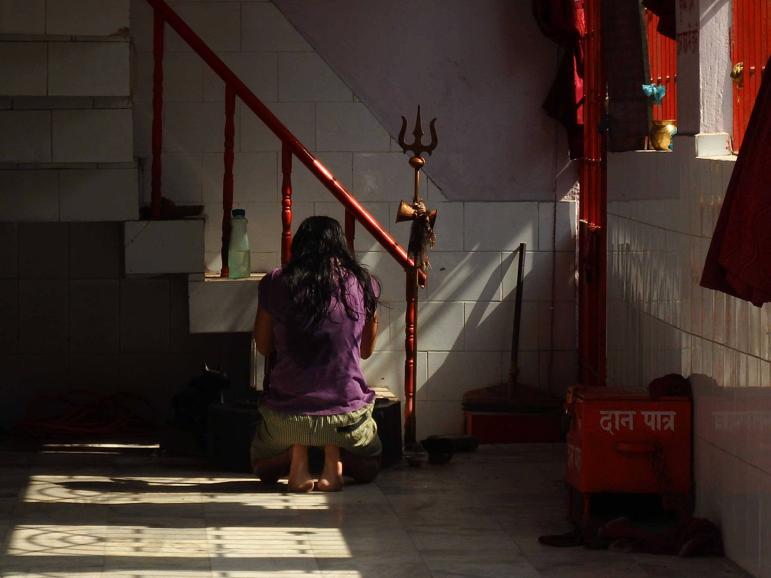 A young woman performs puja in front of a small house altar devoted to Shiva. Patna (Bihar).